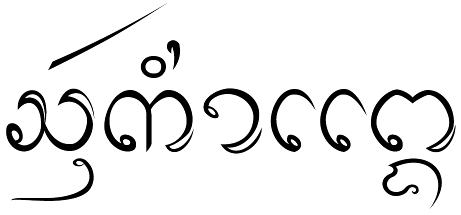 Lanna-Name of District in the North of Thailand